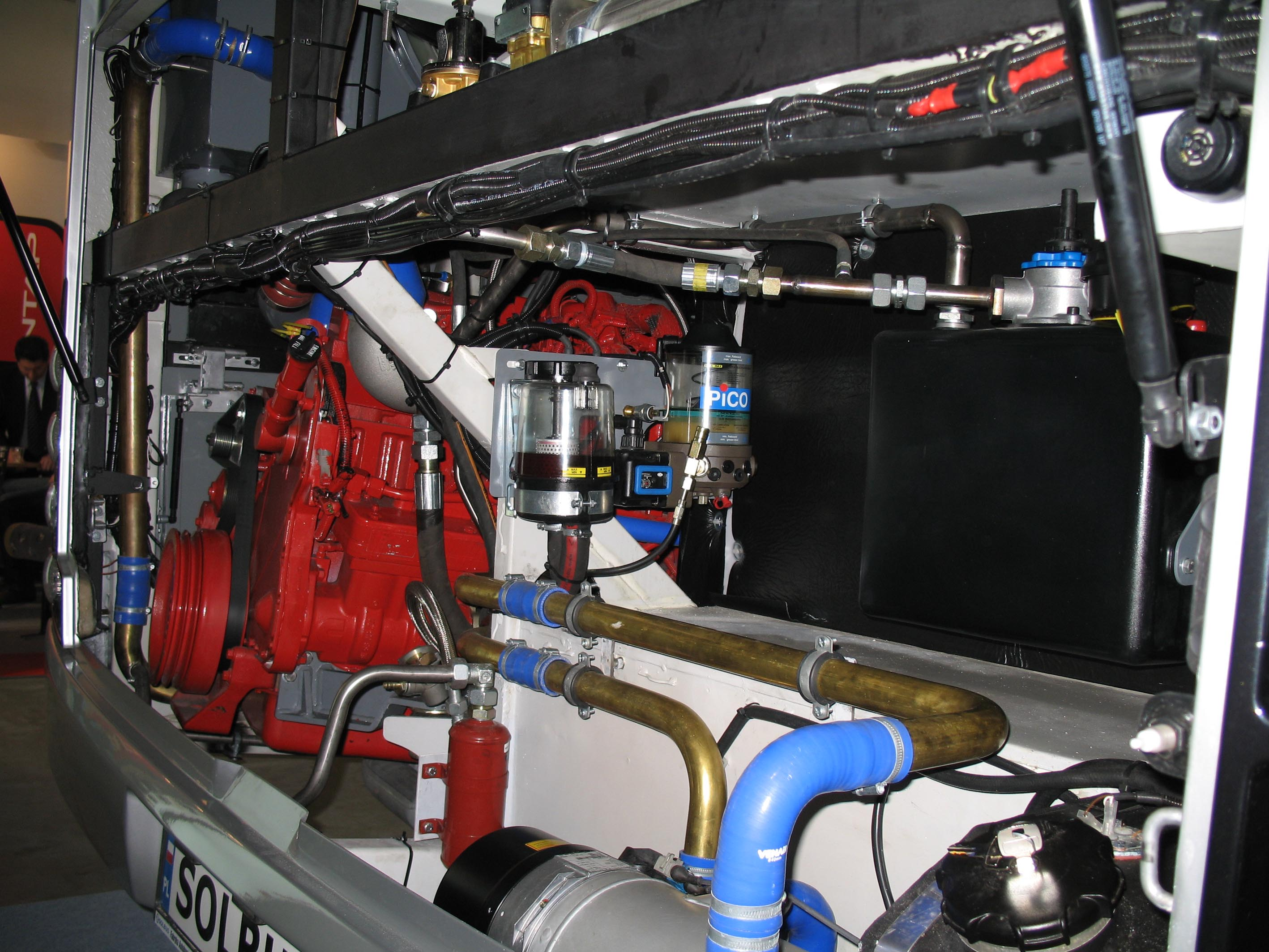 Solbus Solcity 12 LNG bus in Kielce, Poland. Built 2008. Transexpo 2008. Cummins ISLGeEV 320 engine.